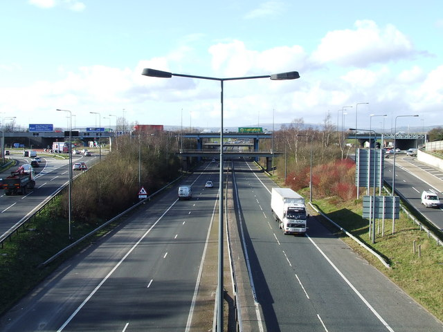 Junction 18 of the M60/M62 at Simister .